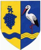 Coat of arms of Ősi, Hungary